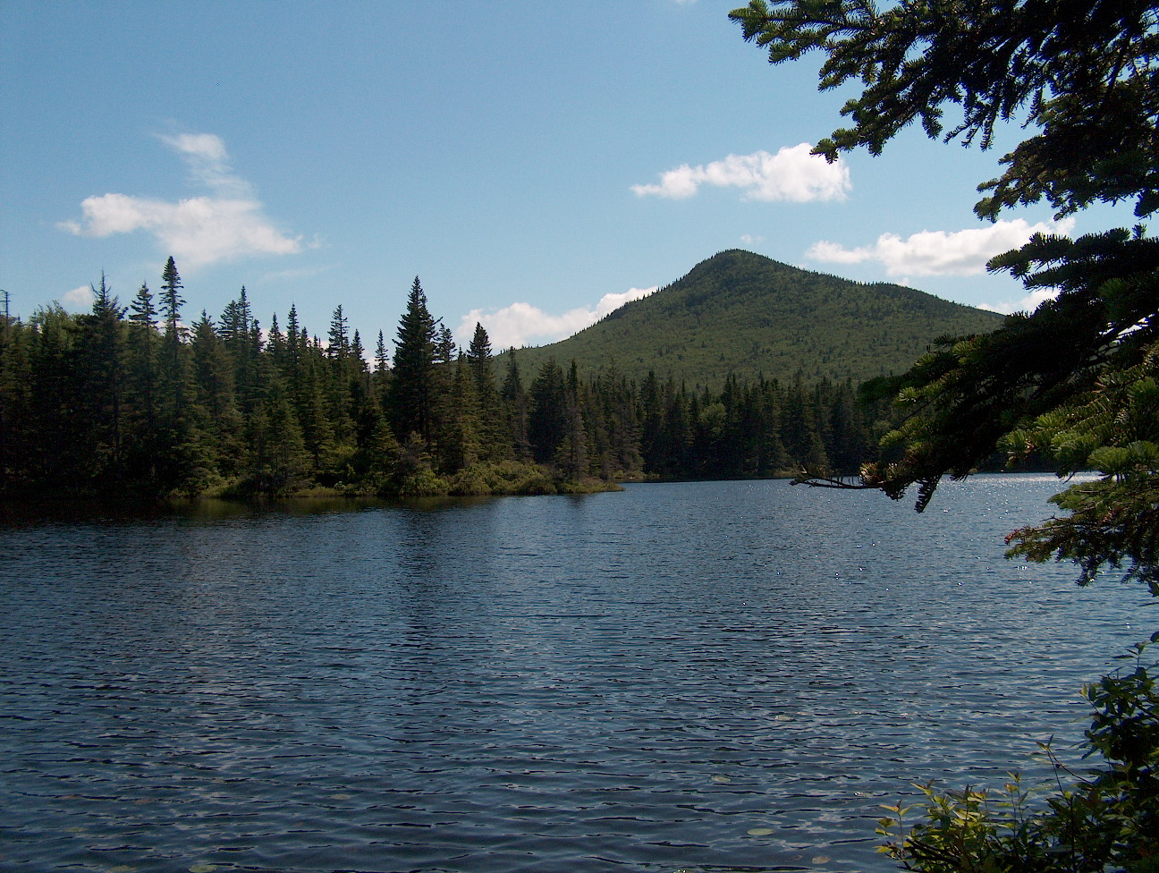 The Horn (New Hampshire), a mountain peak in the White Mountains (New Hampshire), rising over the high-elevation Unknown Pond. Photo by Ken Gallager.